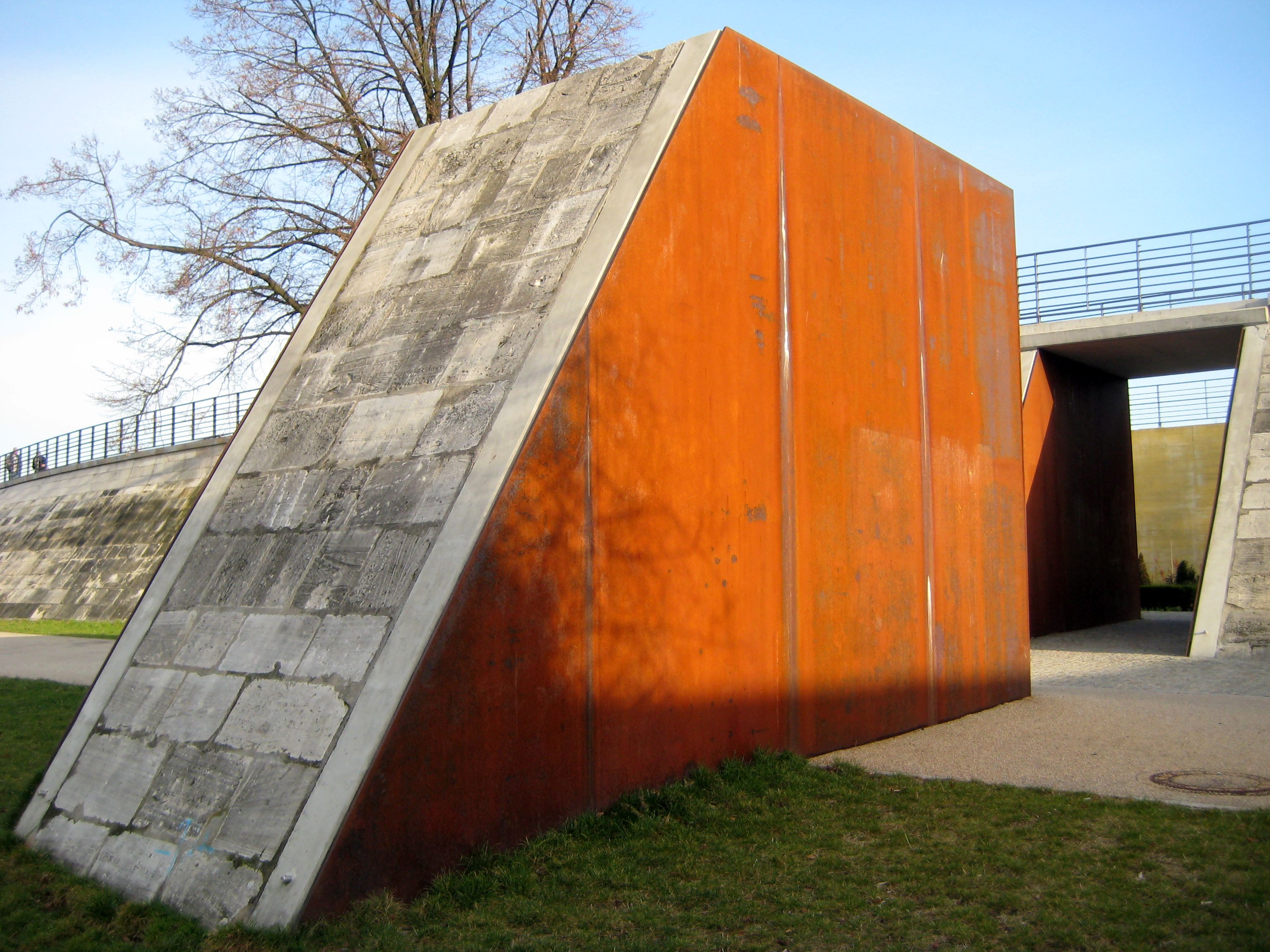 Spreebogenpark in Berlin, sculpture on riverside promenade and passageway to the “traces garden” („Spurengarten“)